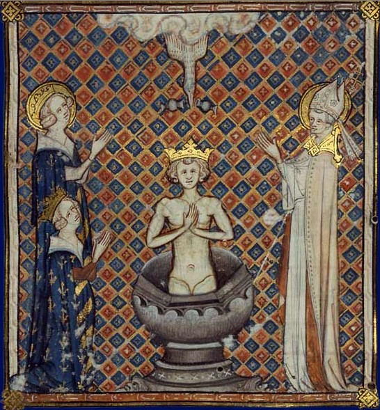 Baptism of Clovis I